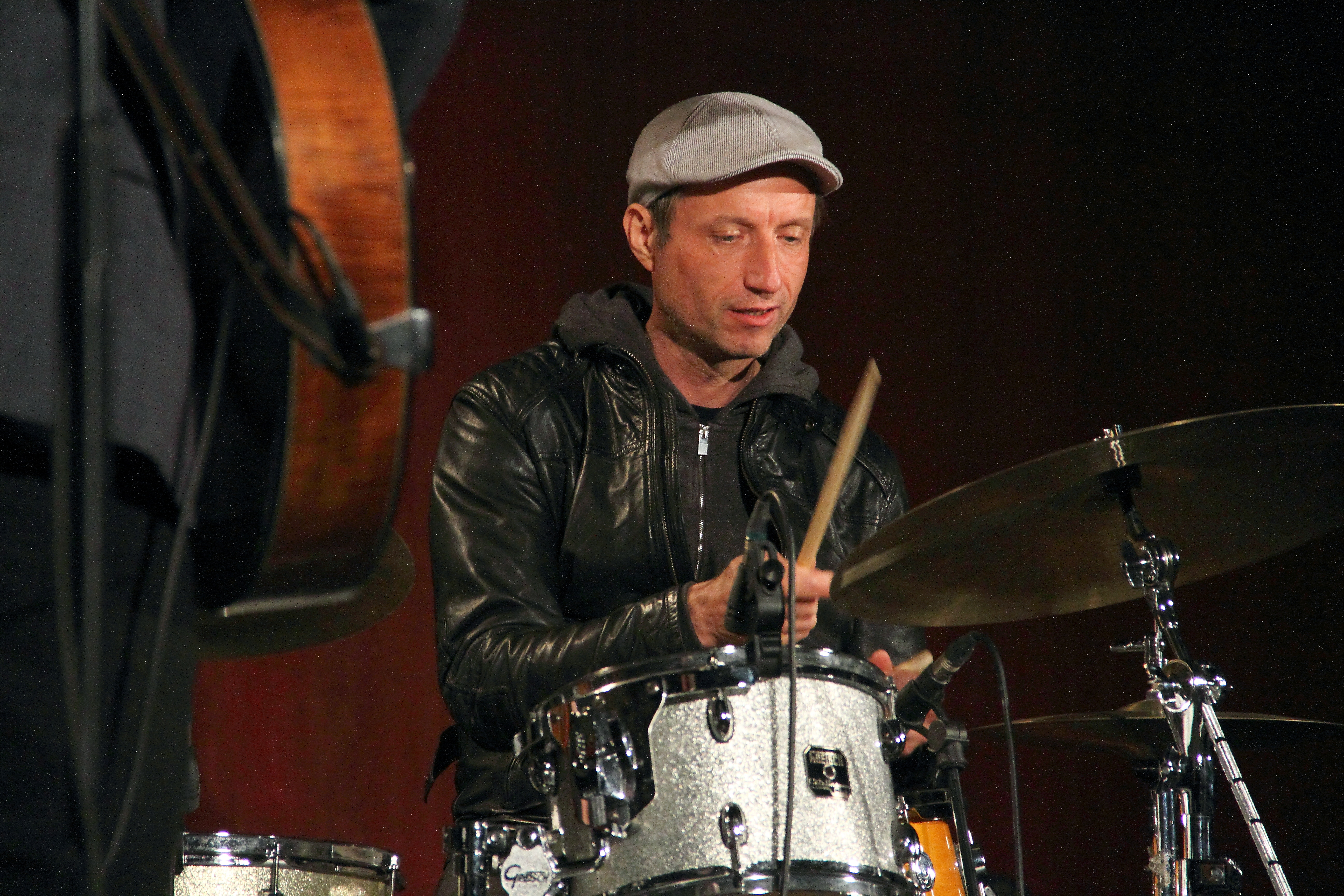 The Peter Bernstein Quartet at INNtöne Jazzfestival, Austria 2016.